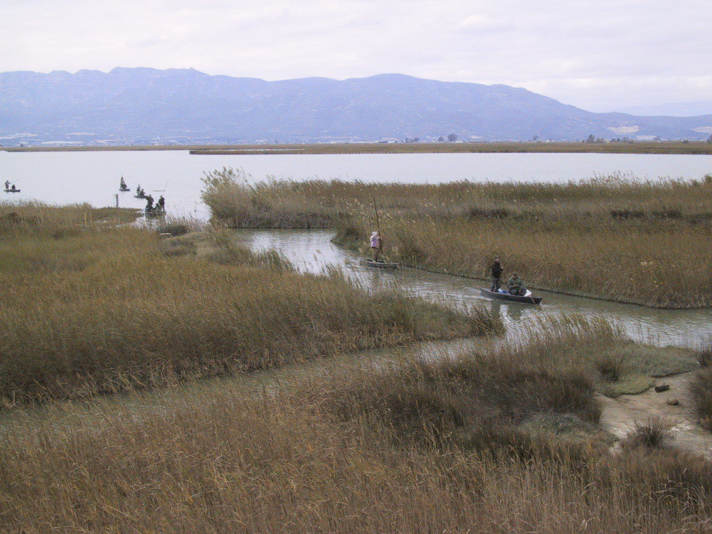 L'Encanyissada lake in Ebre delta. Hunters returning